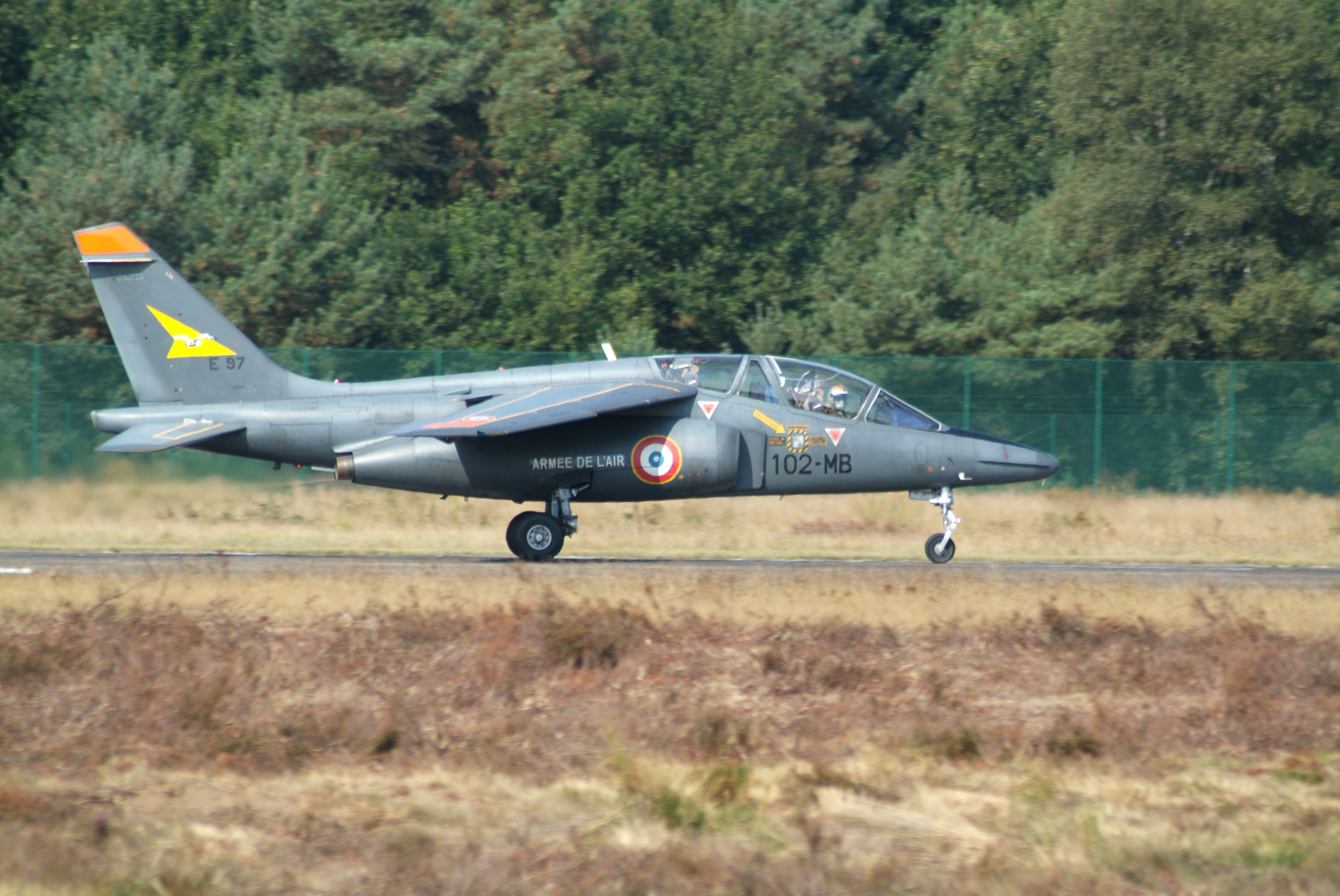 E97 / 102-MB Alphajet belonging to EC.05.002 based at BA102 Dijon-Longvic in Burgundy